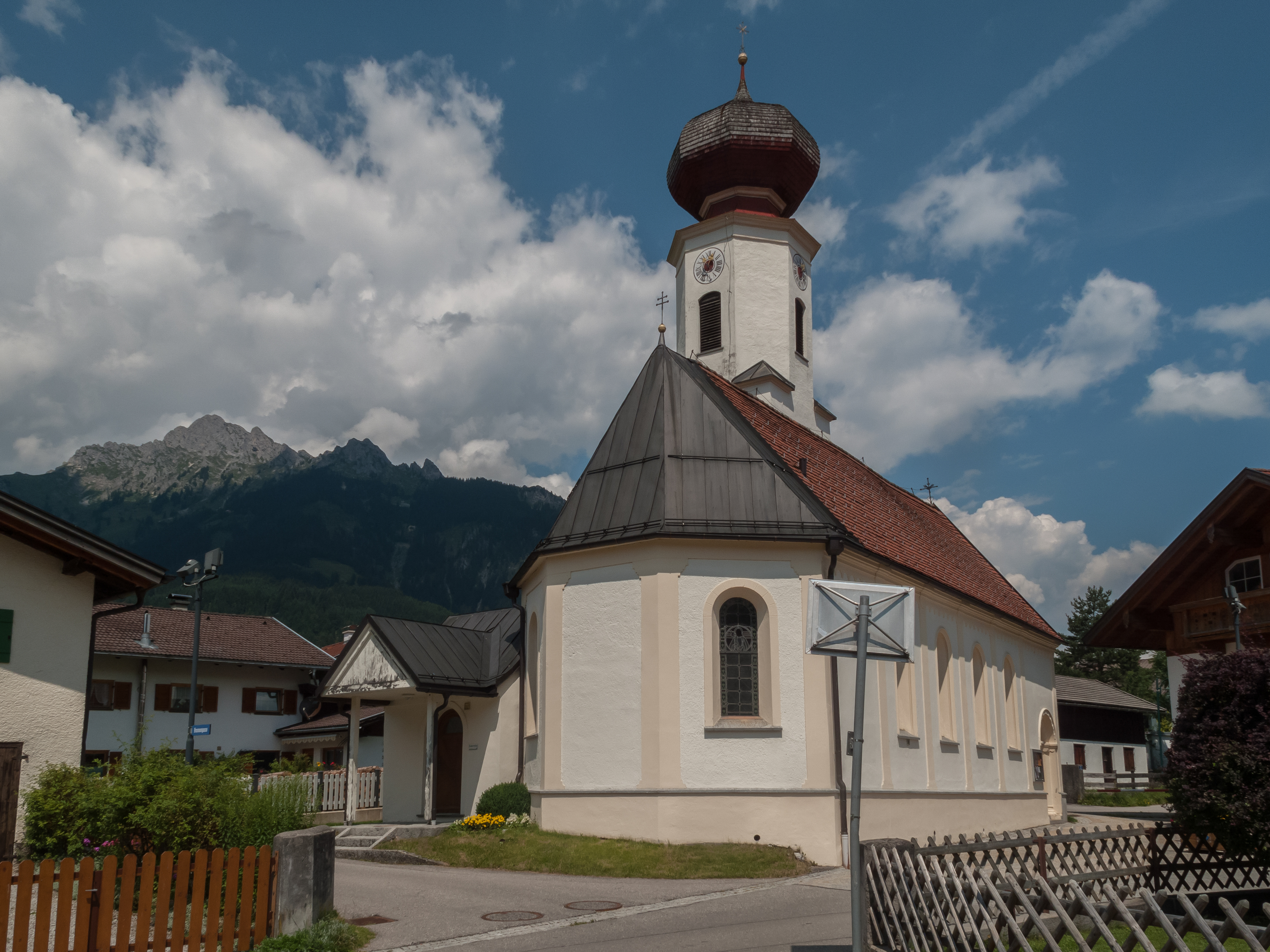 Höfen, church: katholische Filialkirche Maria Hilf with summit of the Gehrenspitze (2163m)